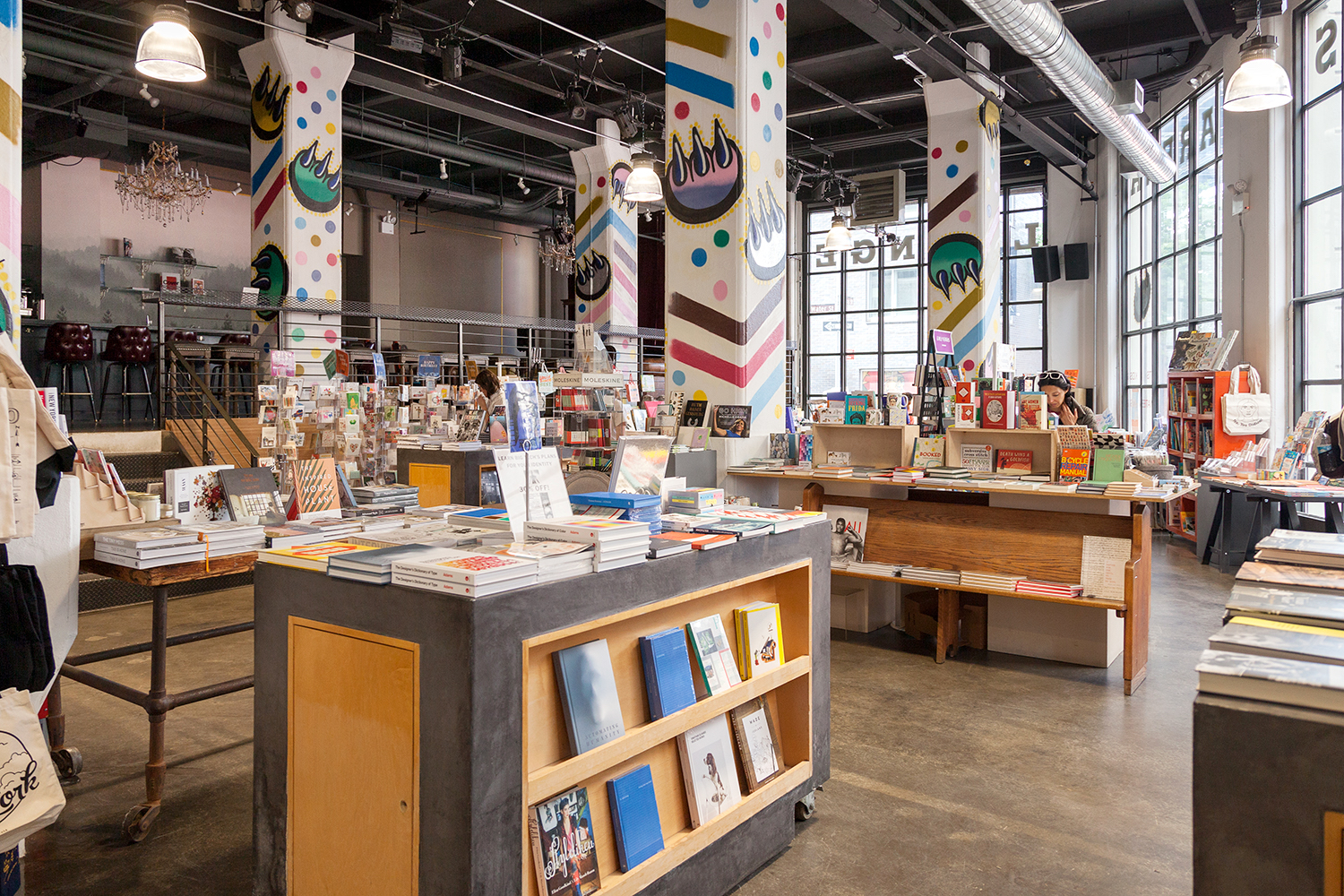 Powerhouse Arena Bookstore, 28 Adams Street, Brooklyn NY (Photo gallery of DUMBO, Brooklyn)